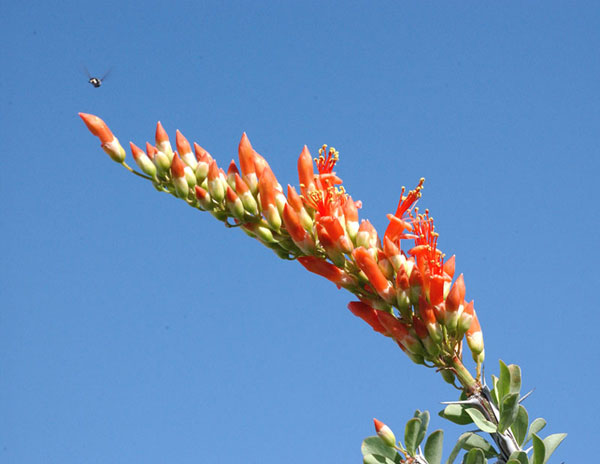 Photo © by Jeff Dean